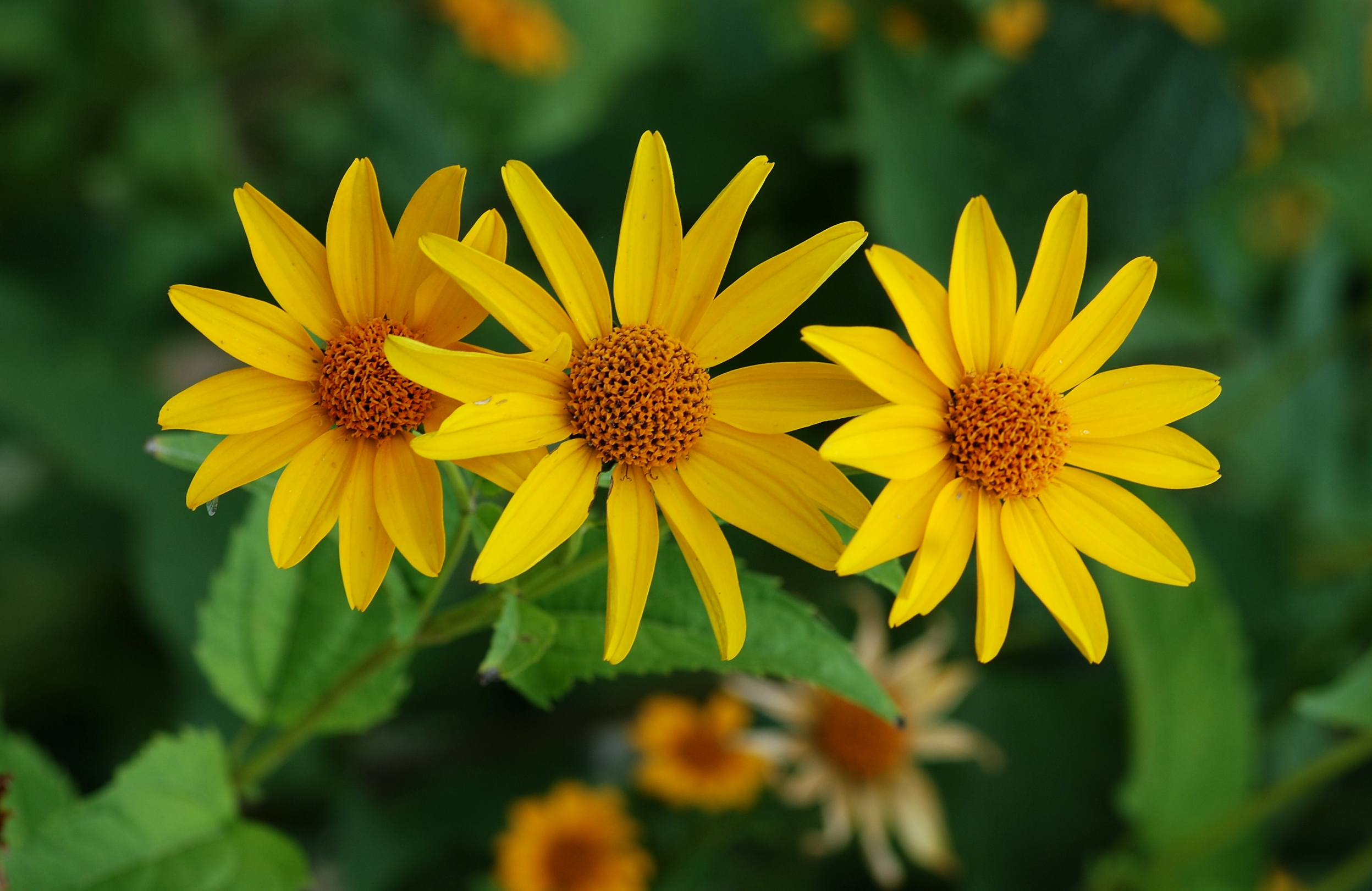 Heliopsis helianthoides. Jardin des Plantes, Paris.